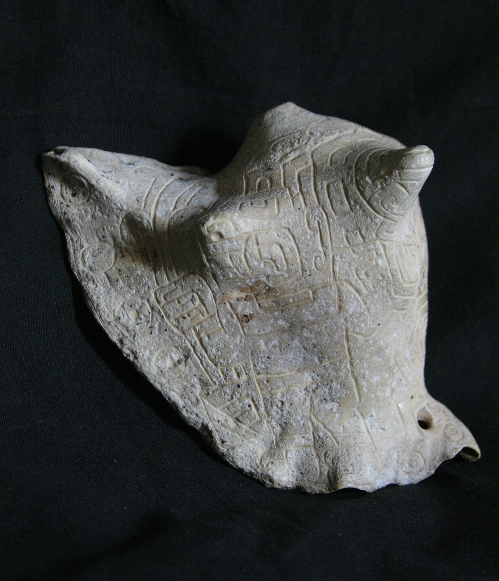 pututo, Strombus shell, Chavin 1000-500 B.C.